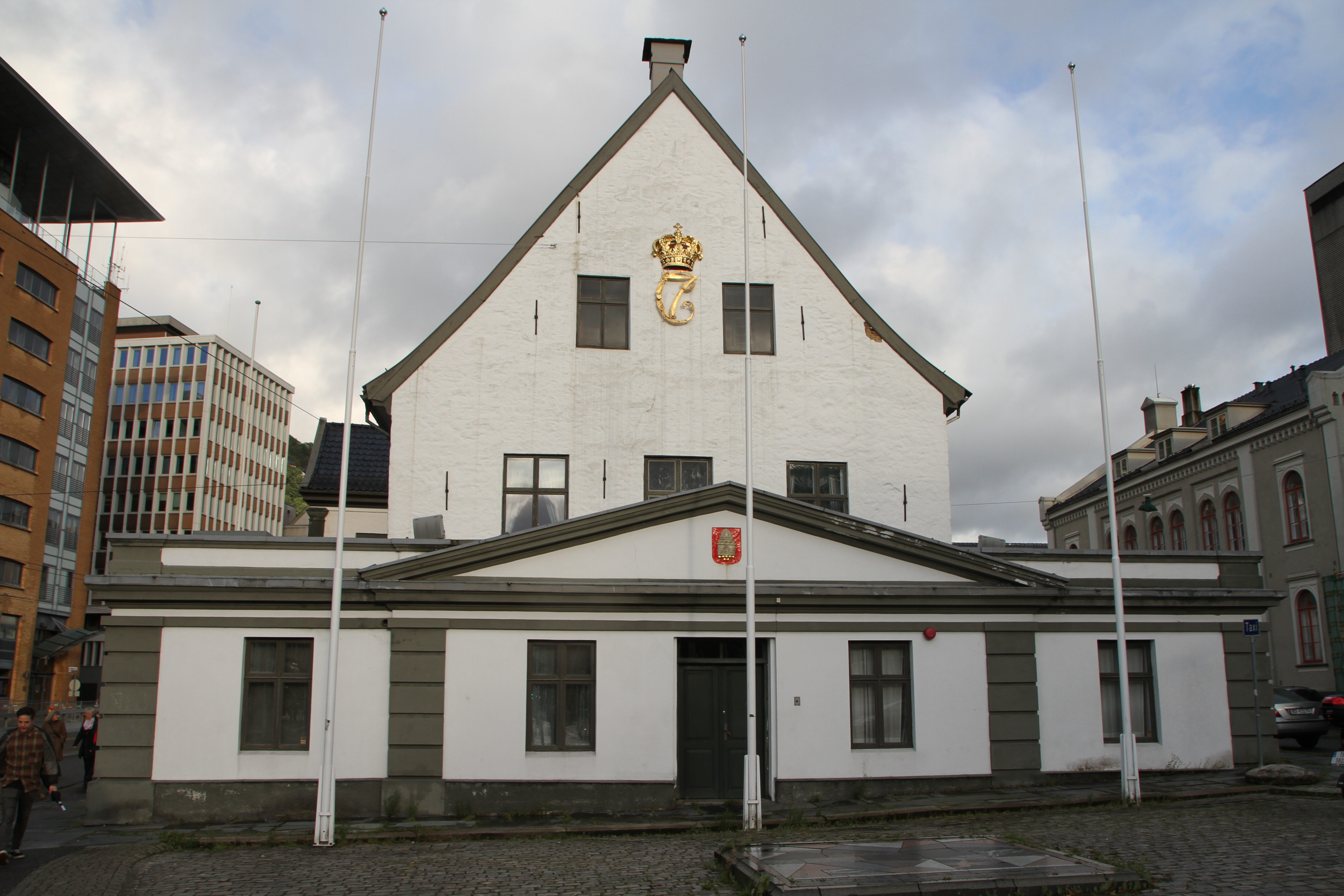 The Old Town Hall of Bergen, Norway